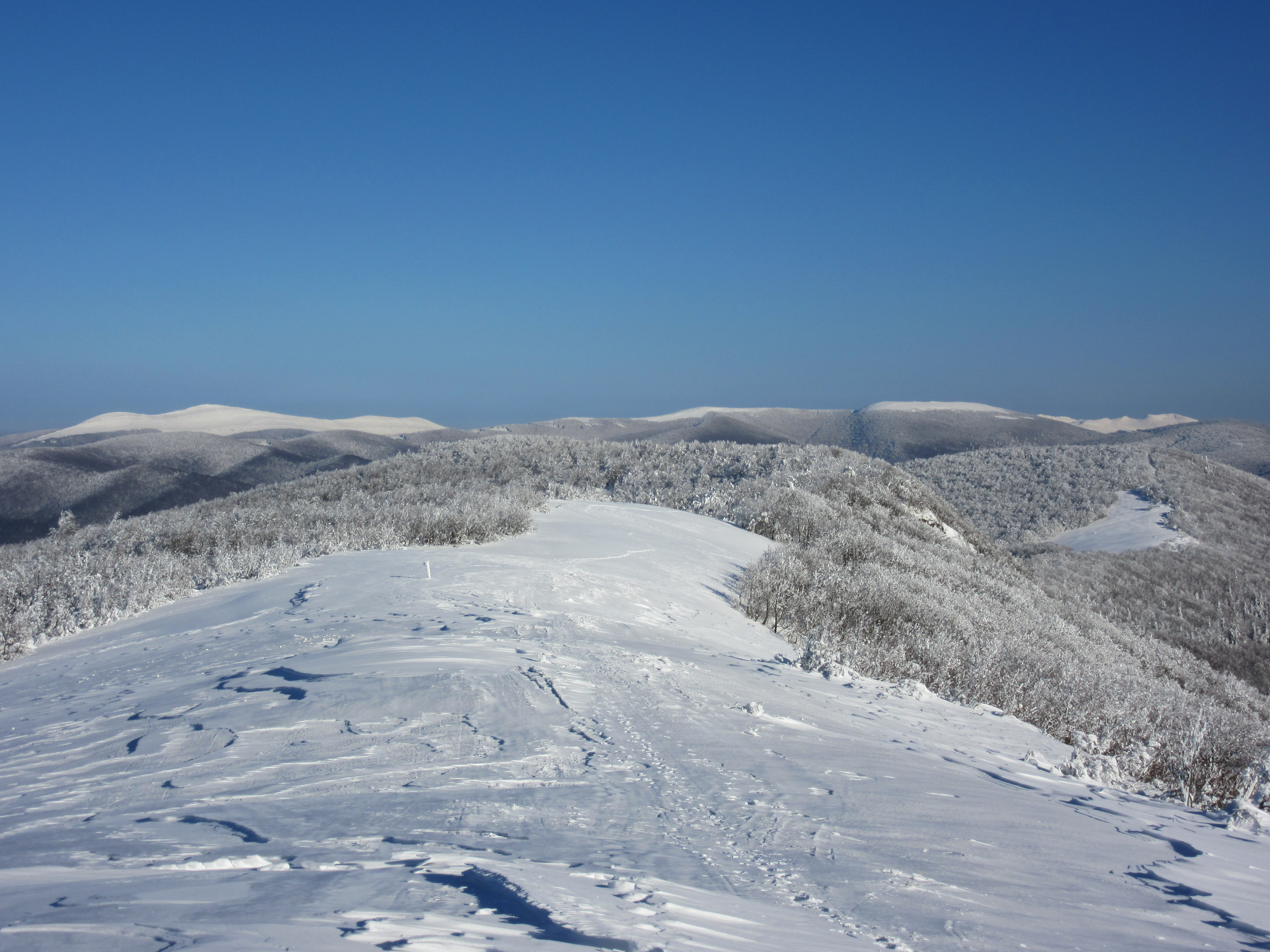 Peak Jarabá skala in winter This is a photography of Natura 2000 protected area with ID SKUEV0229 This is a photography of Natura 2000 protected area with ID SKCHVU002 This is a photography of Natura 2000 protected area with ID PLC180001